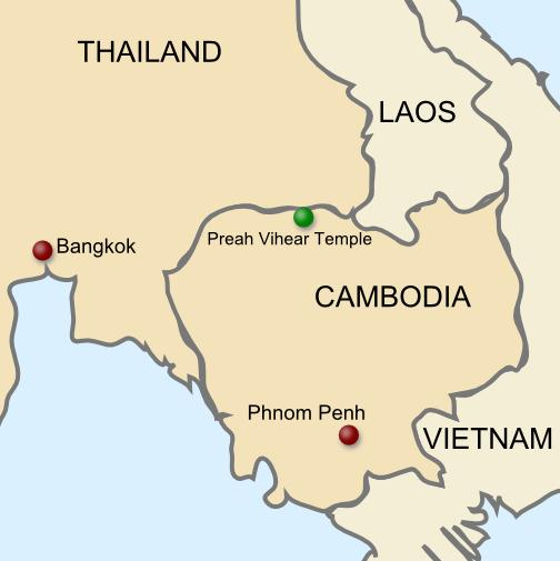 Map of Cambodia and Thailand, showing the location of the Preah Vihear Temple, which both countries lay claim to